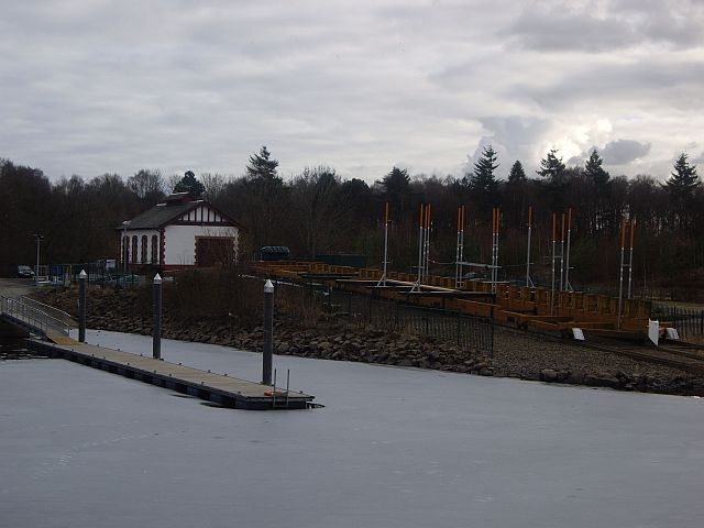 Balloch steam slipway The Balloch steam slipway was built in 1899 by the Dumbarton and Balloch Joint Line Committee to assemble, maintain and repair steamers. It was regularly used until 1990 after which it fell in to disrepair. Volunteers from The Loch Lomond Steamship Company rebuilt the facilities bringing the slipway back into working order once more.